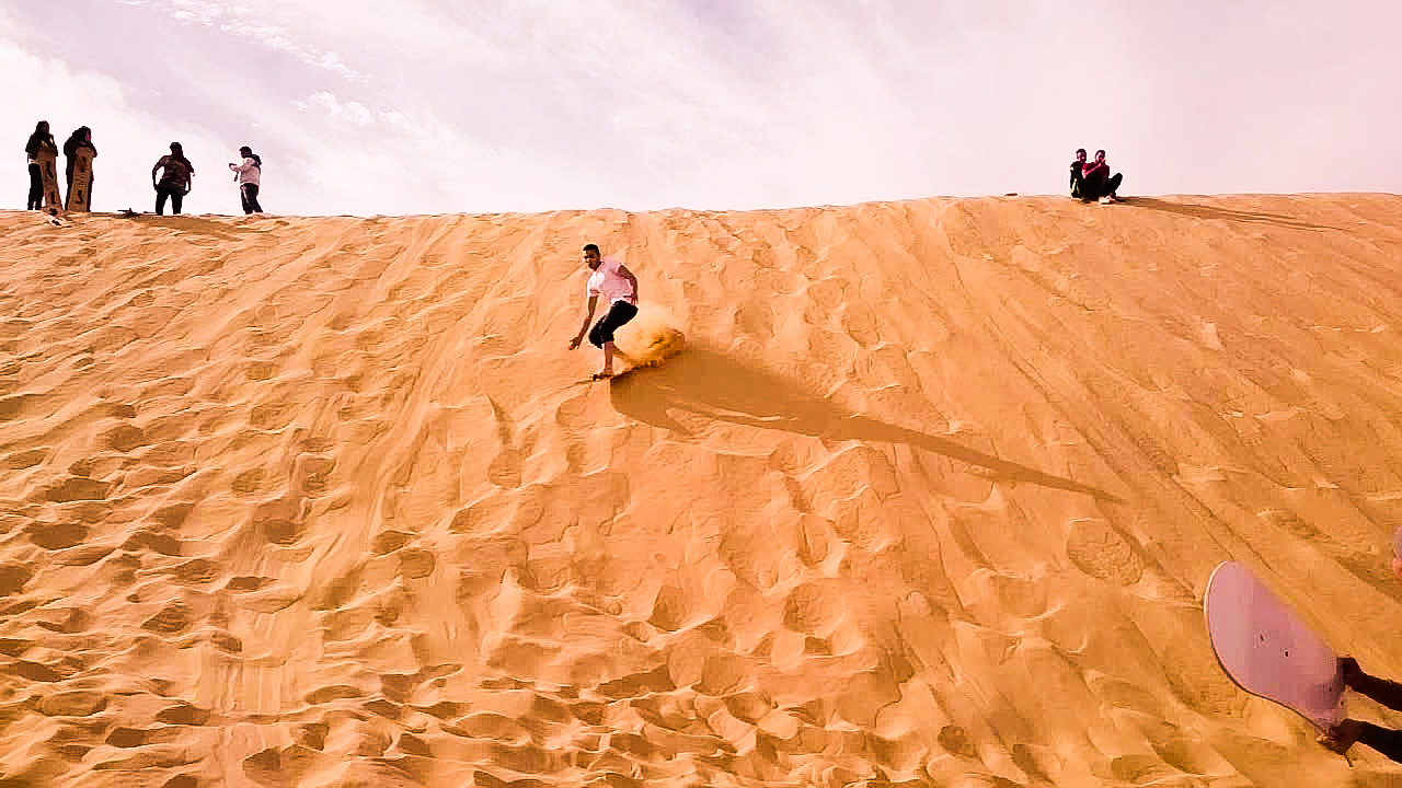 Islam El-Bahnasawy and Sandboarding